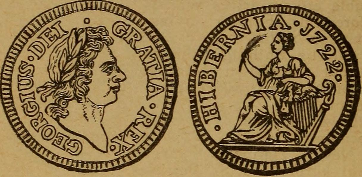 Title: The rare coins of America, England, Ireland, Scotland, France, Germany, and Spain ... a complete list of and prices paid for rare American ... coins, fractional currency, colonial, continental and Confederate paper money; a list of all counterfeit U. S. Treasury and national bank notes and Canadian banks notes, and how to detect them; the market value of all nations' coins and bank notes in U.S. money; a list of and prices paid for rare English, Irish, Scotch, French, German and Spanish coins. Illustrated with about 150 cuts Year: 1889 (1880s) Authors: Von Bergen, William Subjects: Coins Money Publisher: Cambridge, Mass., W. Von Bergen Text Appearing Before Image: These undoubtedly passed for Pence and Halfpence, althoughintended originally for Halfpence and Farthings—by these latternames we quote them. Uncirculated. Fine. Good.Halfpenny, 1722: laureated pro-file r. : long neck, nude bust: georgivs d : g : rex. in large letters. 1^ Hibernia seated with harp on left, looks toward pile of rocks on right: . hiberni^e . : date in ex $20 00 $10 00 $5 00 UncirculatedHalfpenny, 1722, different profile,shorter neck : smaller letters : GEORGIUS . DEI. GRATIA . REX. 1$ Hibernia seated facing her. harp on left: legend above : HIBERNIA . 1722 Fine. Good. $5 00 $3 OO $1 Text Appearing After Image: Halfpenny, 1722 : similar obv. 1^Hibernia seated 1. holds palmbranch, and rests on harp atright: legend beginning nearfeet on left 3 00 Halfpennies, 1723, same type as last: large and small planchets, 1 00 Farthing, 1723 : same type : struck in silver J5 00 Farthing, 1723 : same type : cop-per 10 00 Halfpenny, 1724: same type: struck in silver 15 00 Halfpenny, 1724: same type: period after date : copper 1 00 Farthings, 1724 : same type 1 00 5 00 5050